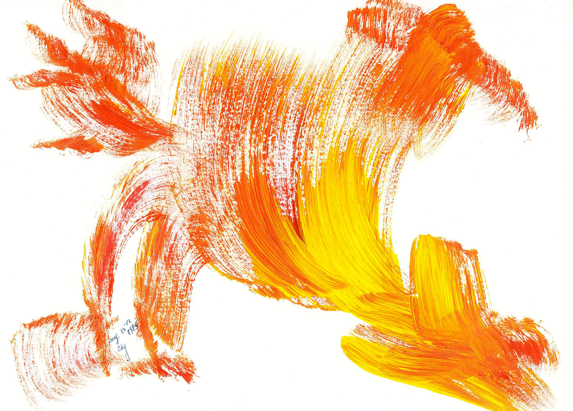 Jharna-Kala artwork by Sri Chinmoy, dated August 15, 1985, now in the posession of the Art Collection of Kedar Misani in Zurich who owns all rights